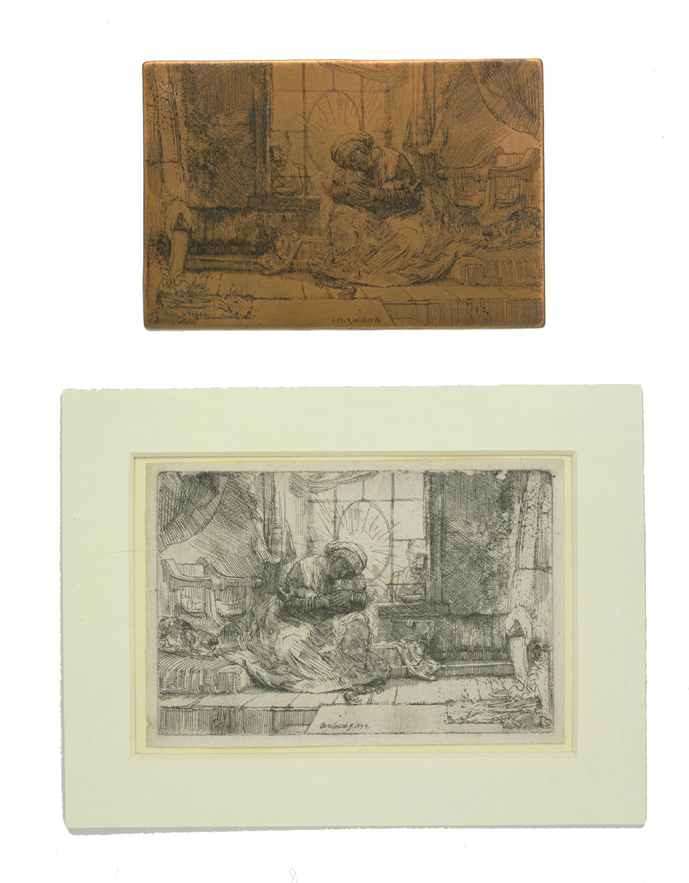 The Virgin and Child with a Cat, 1654, Rembrandt van Rijn (1606-1669) V&A Museum nos.E.655-1993 top; CAI.646 bottom Techniques - Etching on paper (below), the original etched copper printing plate (above) Place - Netherlands Dimensions - Height 9.5 cm, Width 14.5 cm